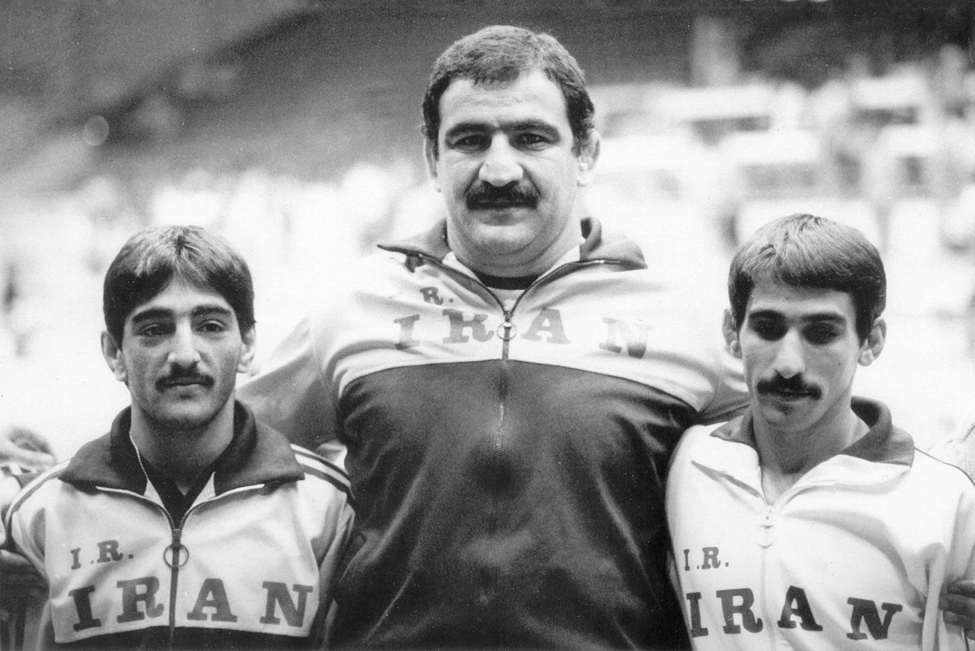 Left-right: Majid Torkan, Alireza Soleimani, Askari Mohammadian, at the 1986 Asian Games or at the 1983 Asian Championships in Tehran (the only international competition where all three won gold medals), same date as File:Majid Torkan, Alireza Soleimani, Askari Mohammadian.jpg (compare clothes)